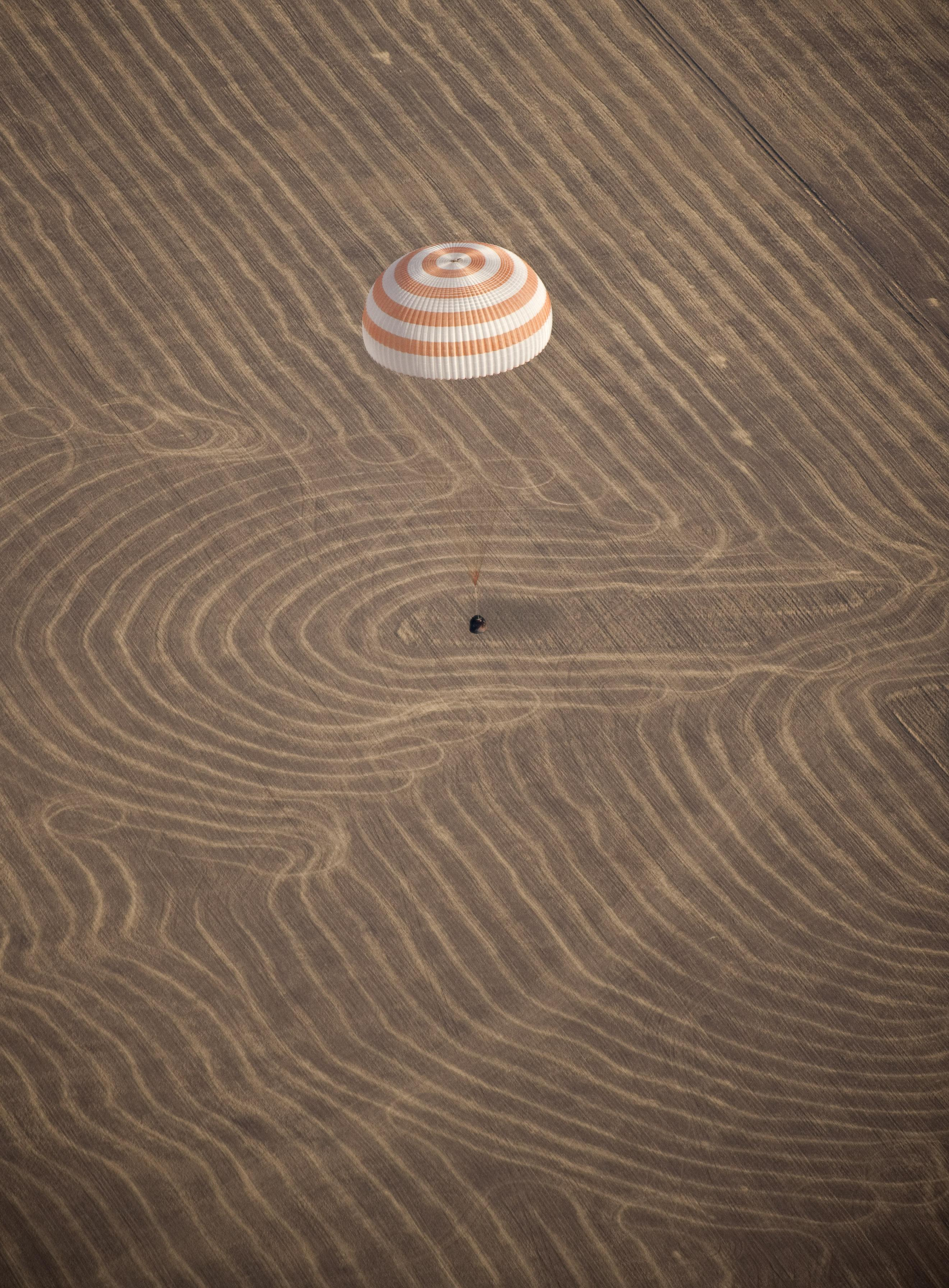 The Soyuz TMA-14 spacecraft is seen as it lands with Expedition 20 Commander Gennady Padalka, Flight Engineer Michael Barratt, and space-flight participant Guy Laliberte near the town of Arkalyk, Kazakhstan. Padalka and Barratt returned from six months on-board the International Space Station, along with Laliberte who arrived at the station with Expedition 21 Flight Engineers Jeff Williams and Maxim Suraev aboard the Soyuz TMA-16 spacecraft.